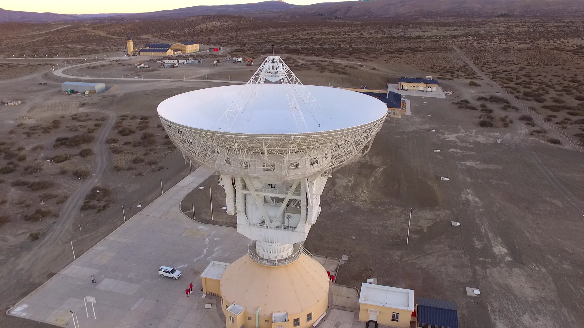 The main antenna of the deep space ground station of China in the Neuquén province, Argentina